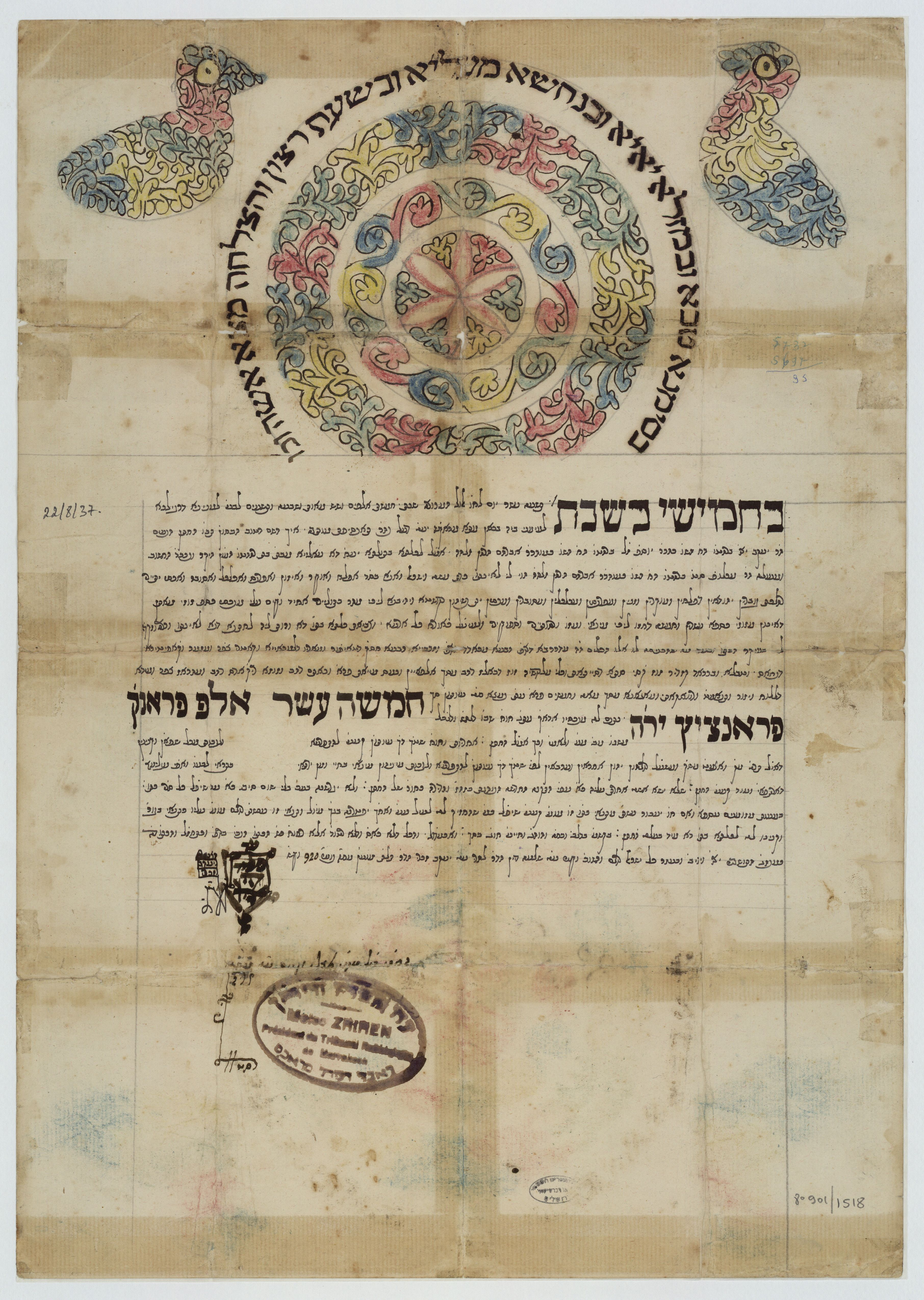 Ketubbah. Marrakech, Morocco. 1937